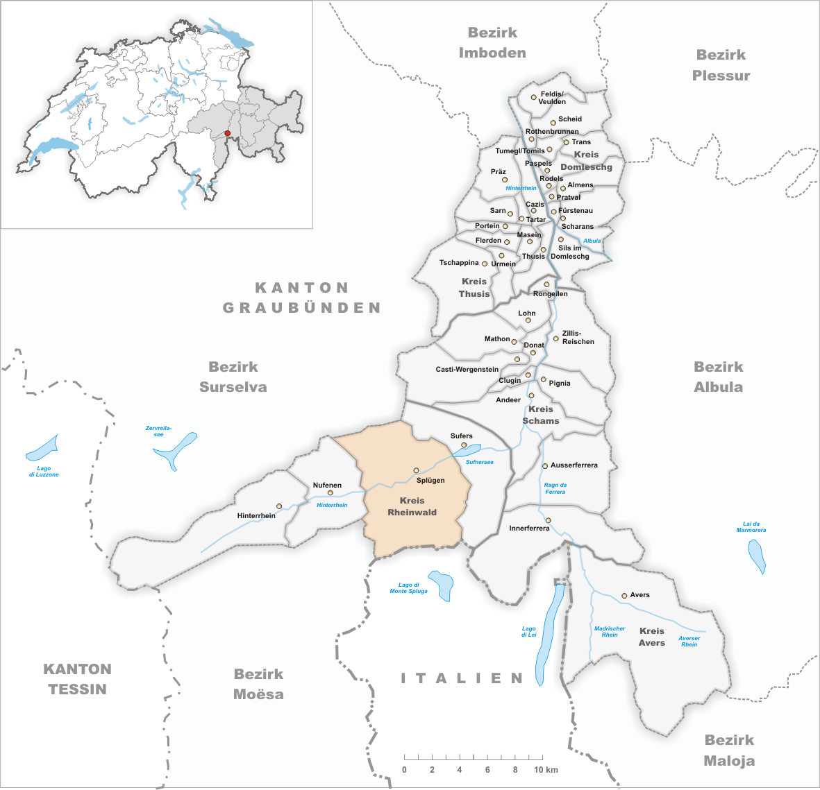 Municipality Splügen